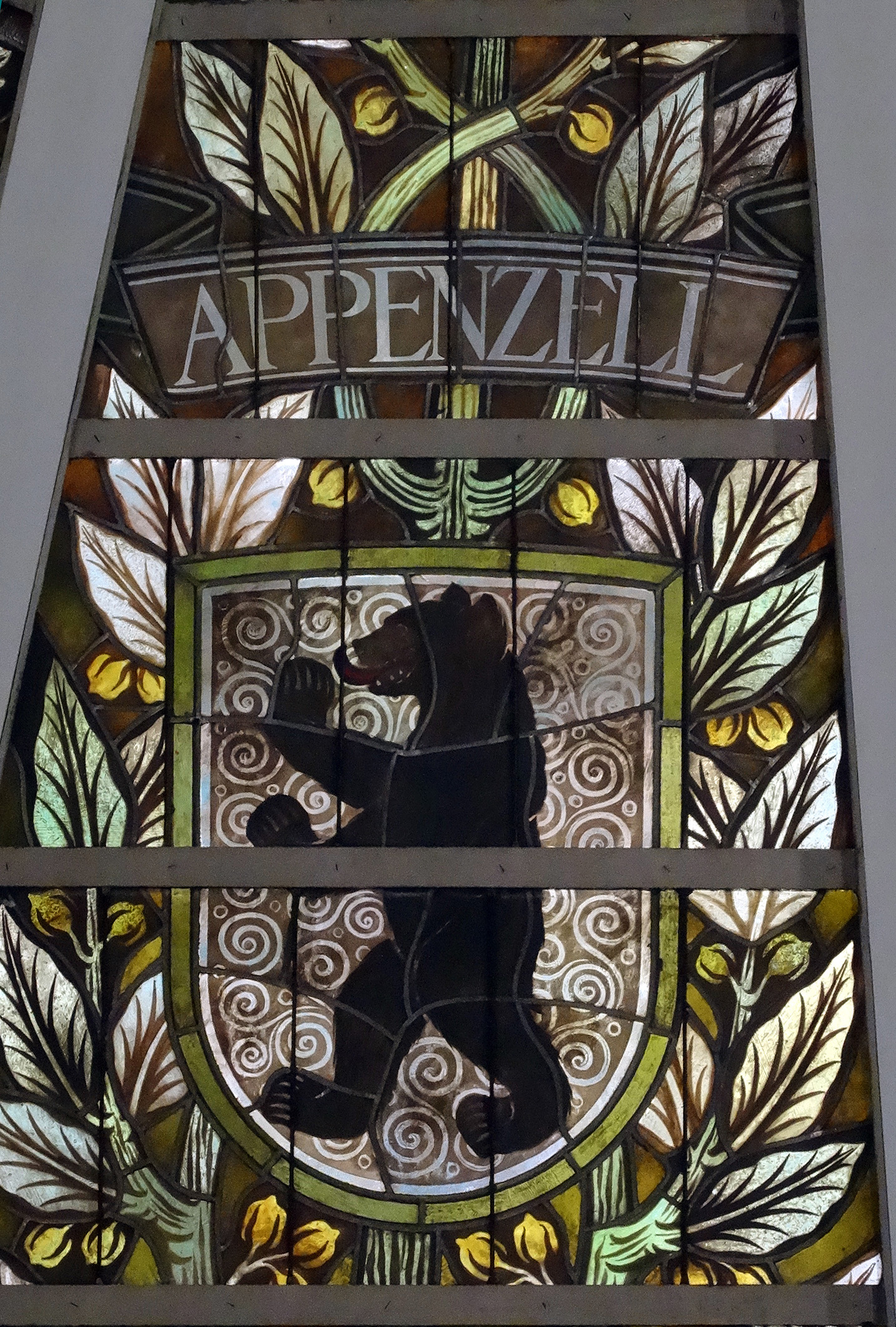 Federal Palace of Switzerland - stained glass windows of canton of Appenzell